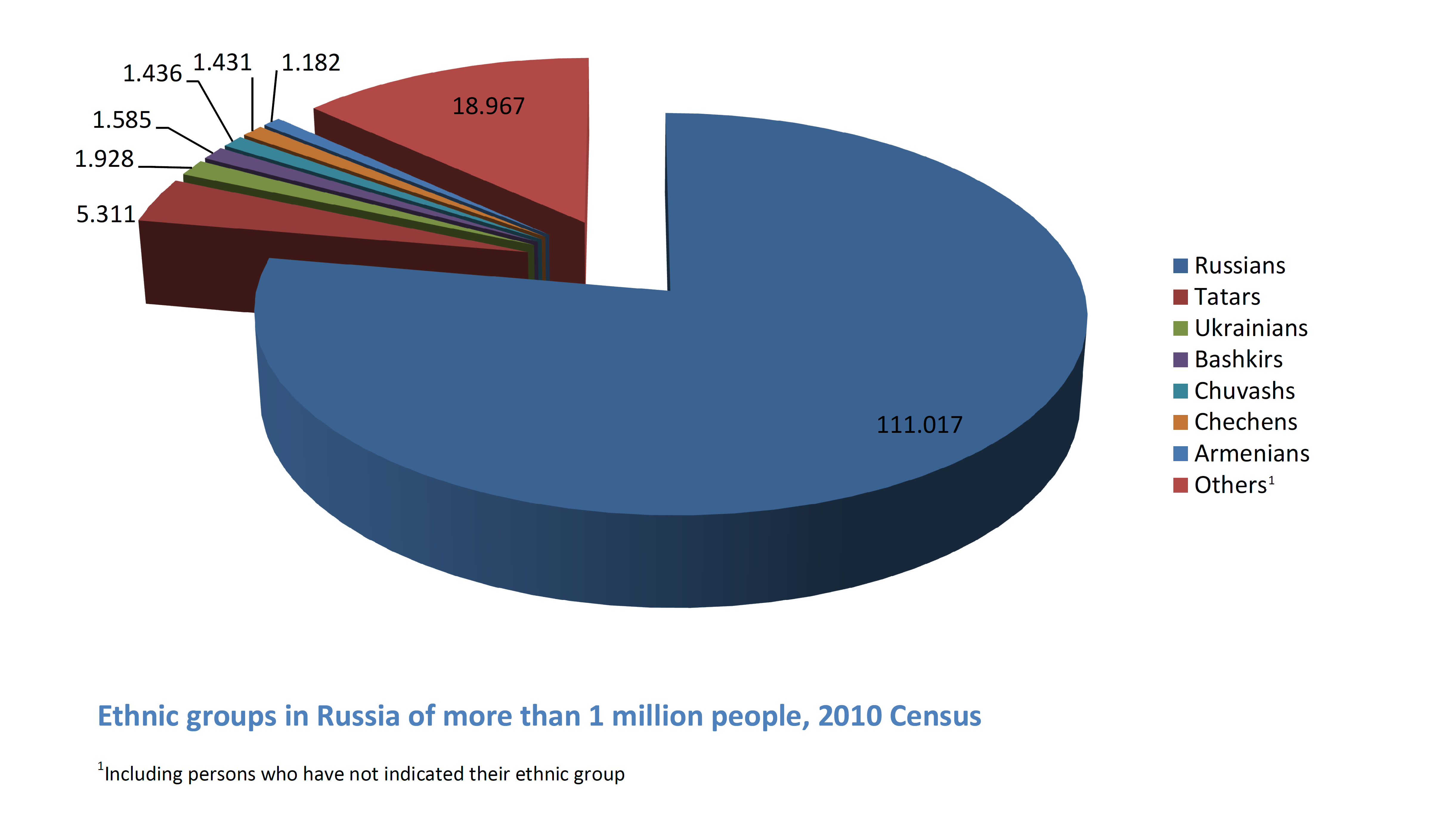 Ethnic groups in Russia of more than 1 million people, 2010 Census (English)